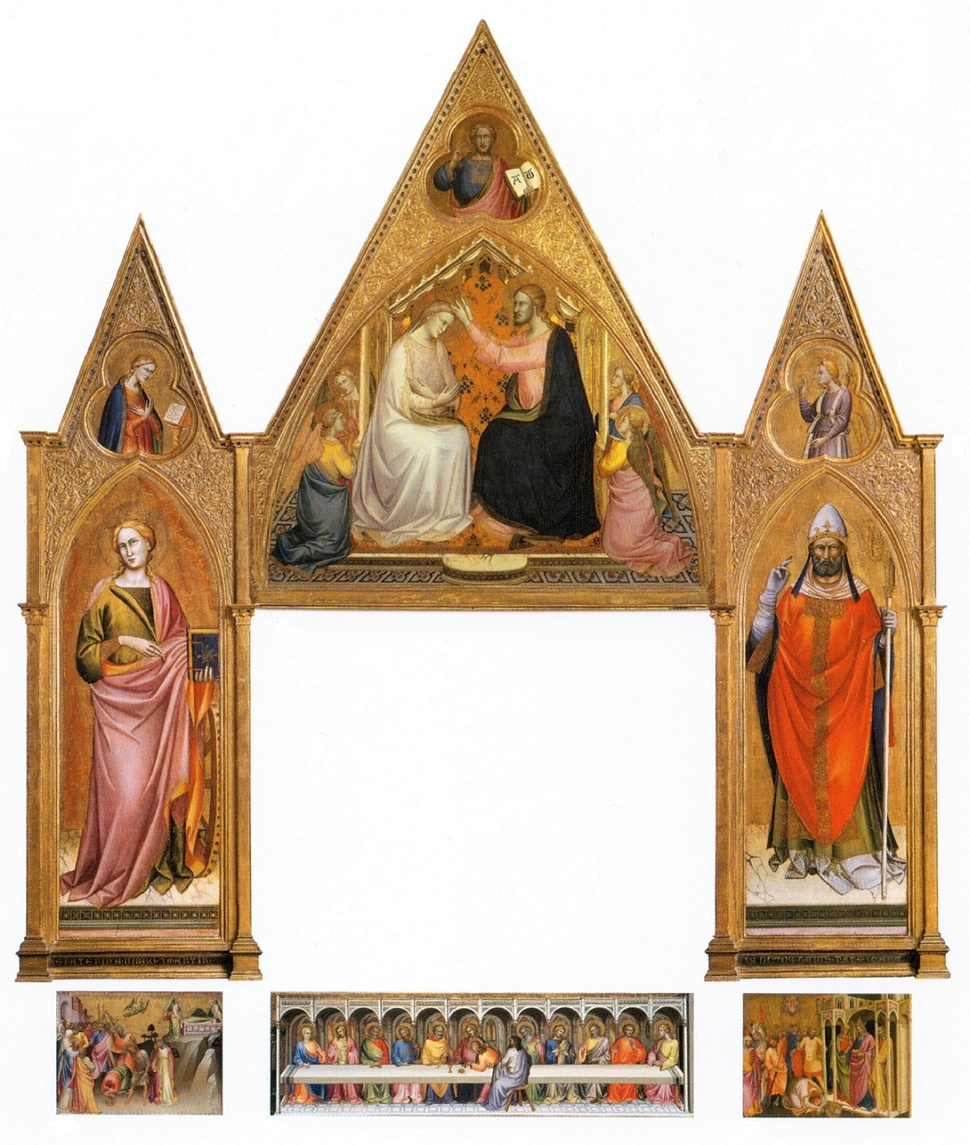 Lorenzo Monaco, San Gaggio Polyptych. 1388-90. Reconstruction